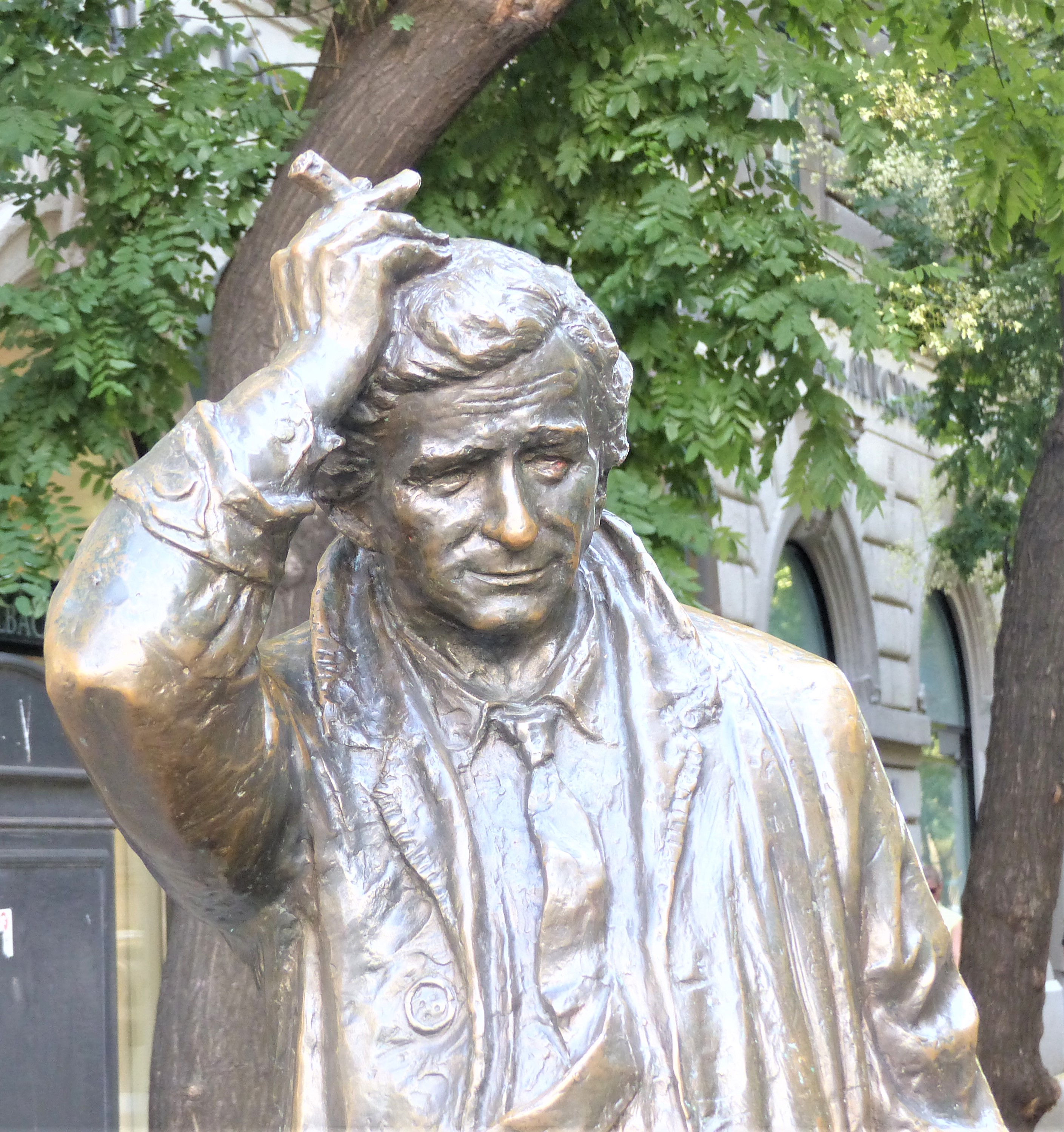 Peter Falk as Columbo with his Dog. Budapest, Central Europe. Timestamp verified.